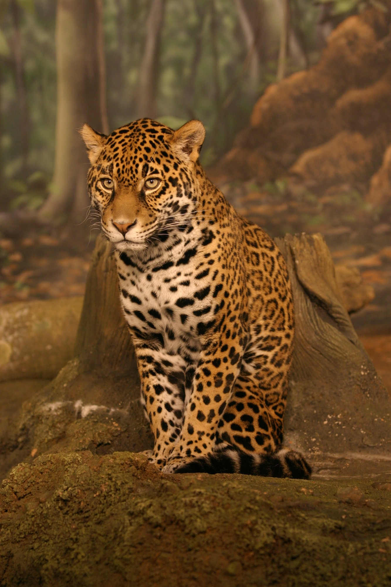 A Jaguar (Panthera onca) at the Milwaukee County Zoological Gardens in Milwaukee, Wisconsin.